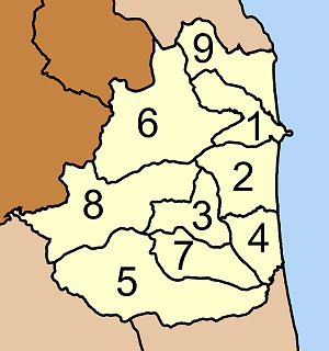 Map of Sichon district, Nakhon Si Thammarat province, with the communes (tambon) numbered Sichon (สิชล) Thung Prang (ทุ่งปรัง) Chalong (ฉลอง) Sao Phao (เสาเภา) Plian (เปลี่ยน) Si Khit (สี่ขีด) Thep Rat (เทพราช) Khao Noi (เขาน้อย) Thung Sai (ทุ่งใส)